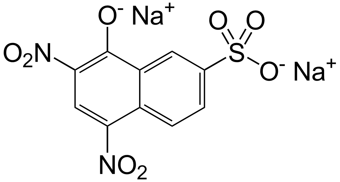 chemical structure of naphthol yellow S (food yellow 1)